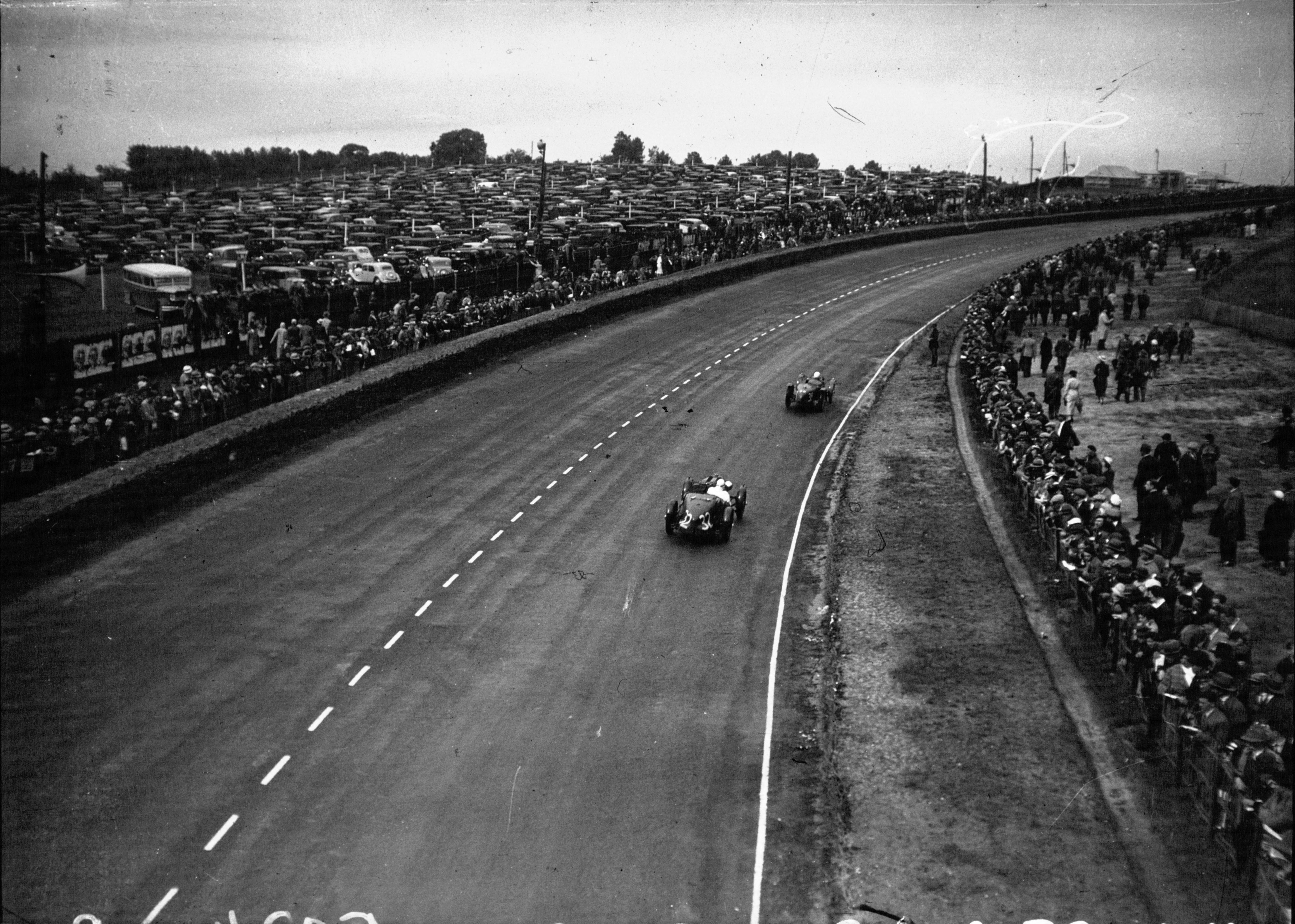 Two cars at the 1935 24 Hours of Le Mans.